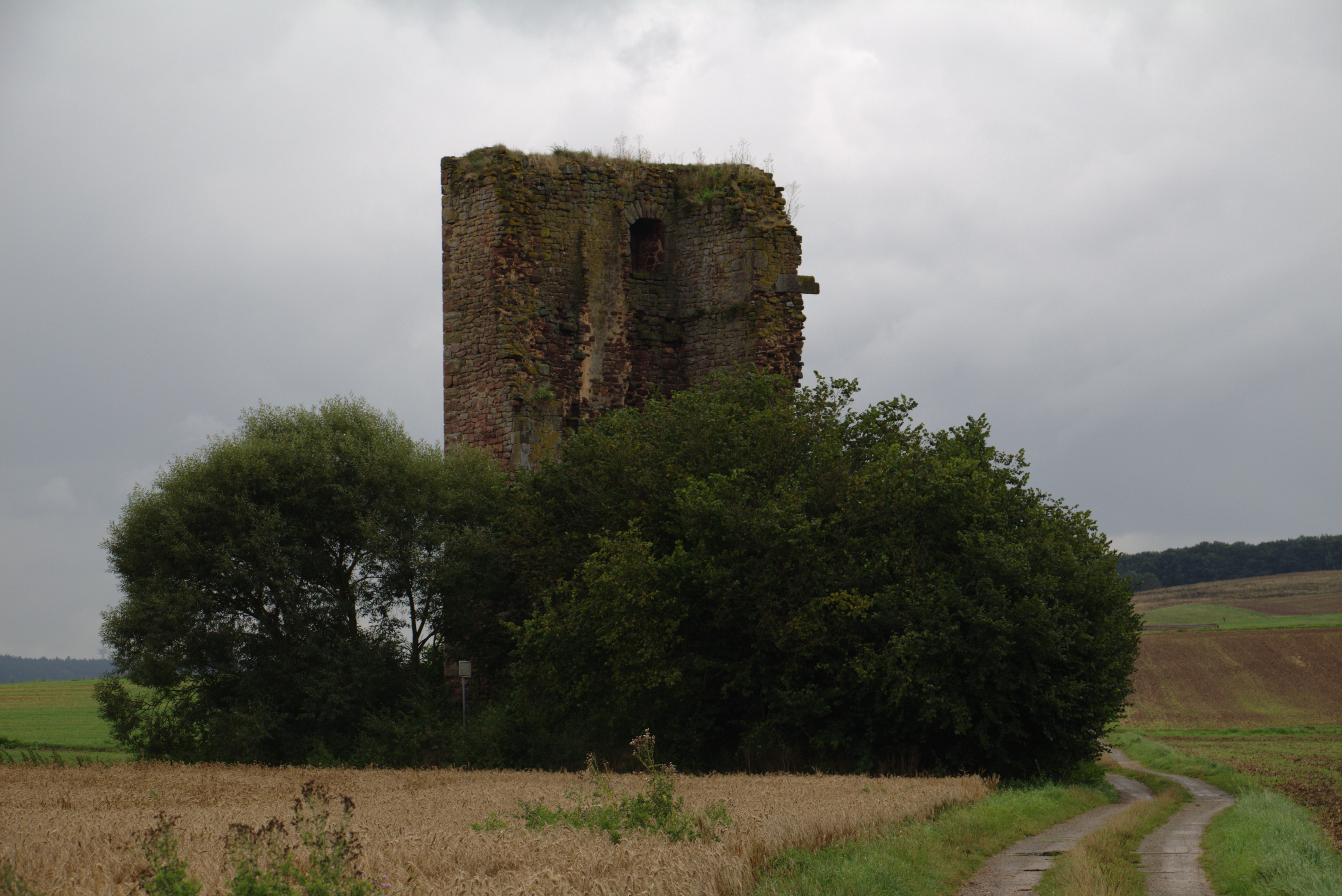 Ruin (Burg Seeburg) near Hartershausen, Schlitz, Hesse, Germany.